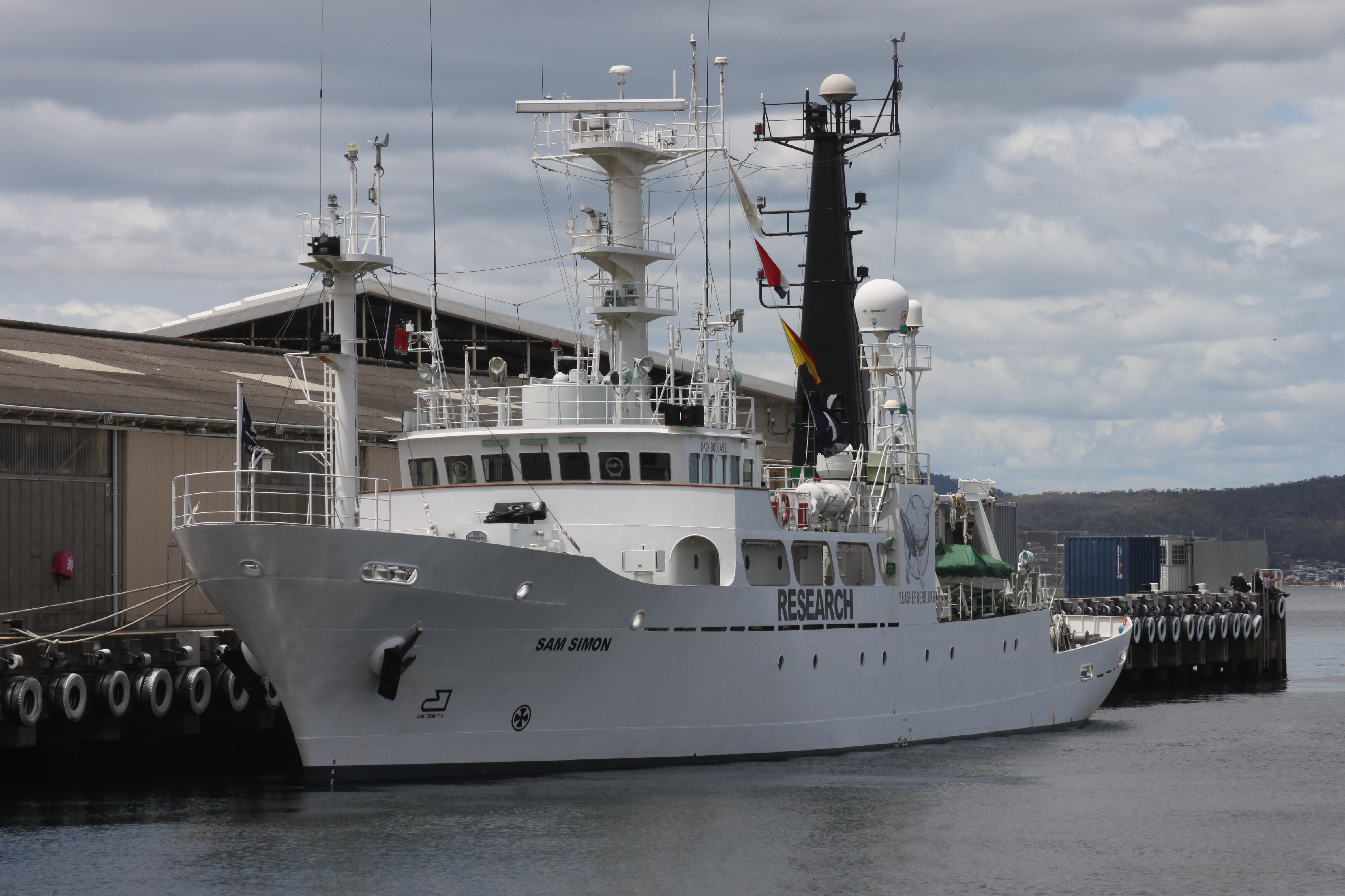 Recent picture (Dec 2012) of the MY Sam Simon, part of the Sea Shepherd fleet. Picture taken in Hobart Harbour, Tasmania.